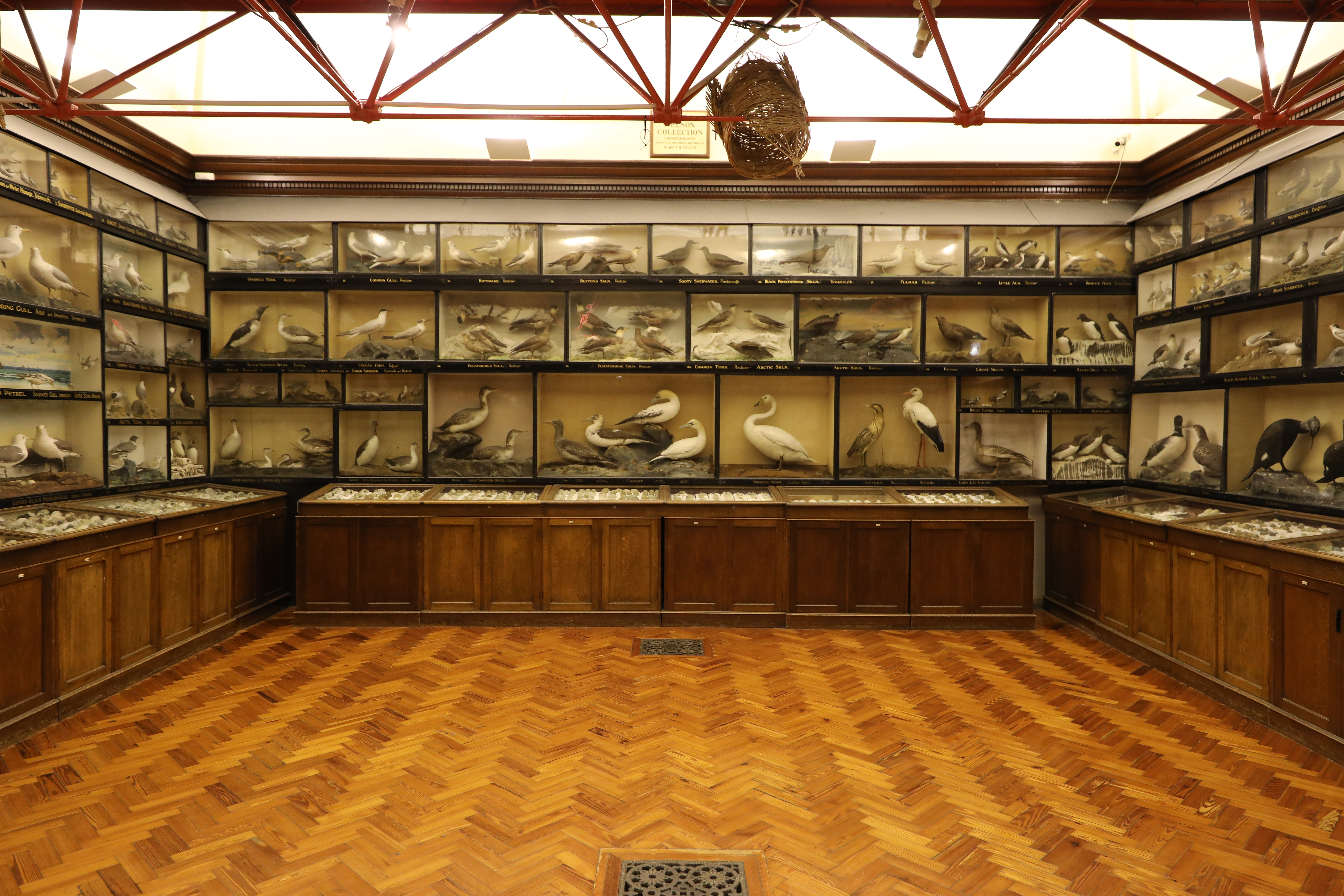 photo of the nelson room in the dorman museum